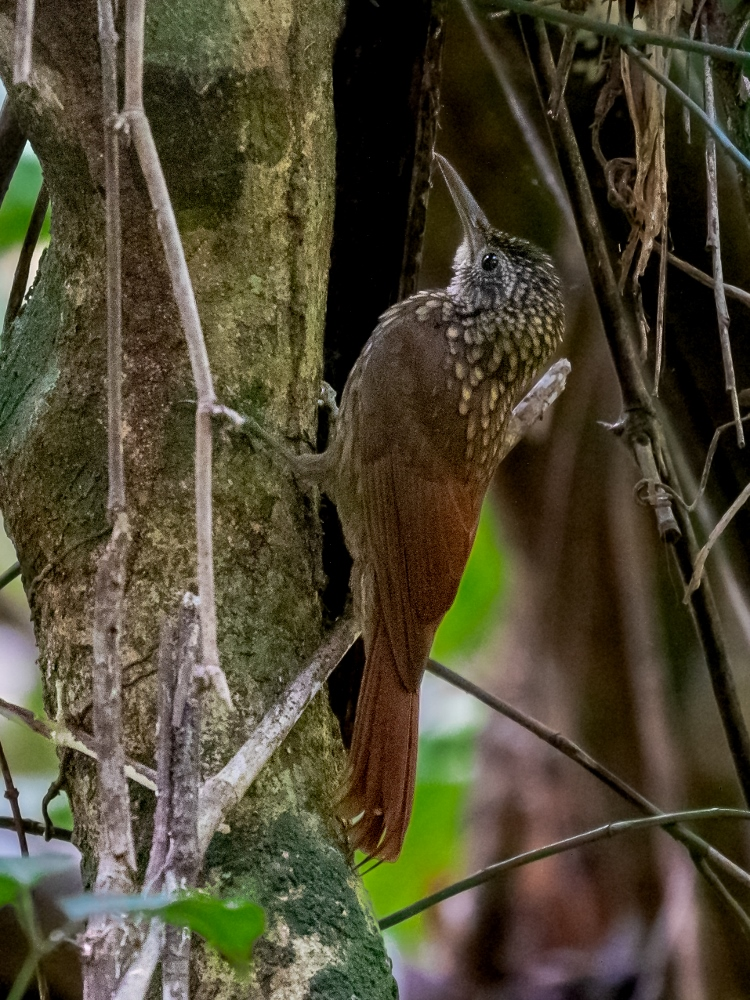 Spix's Woocreeper; Parauapebas, Para, Brazil